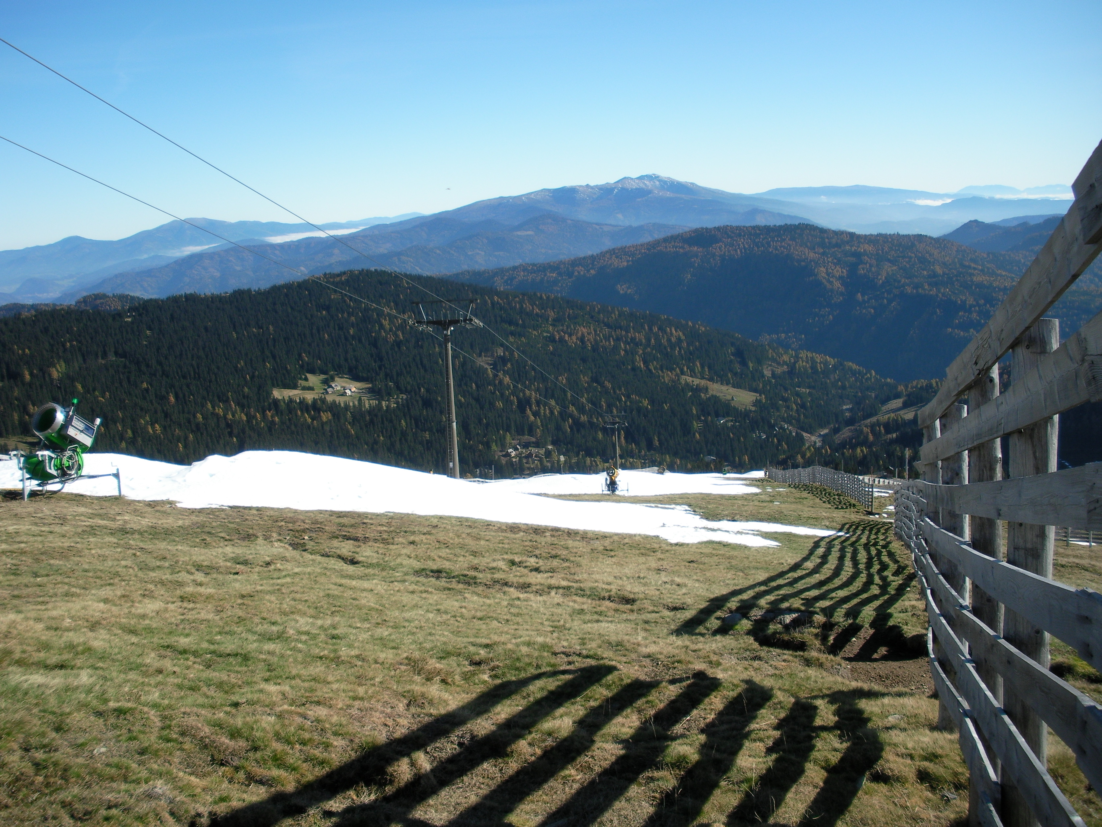 Snow cannons Lachtal Rottenmanner und Wölzer Tauern.